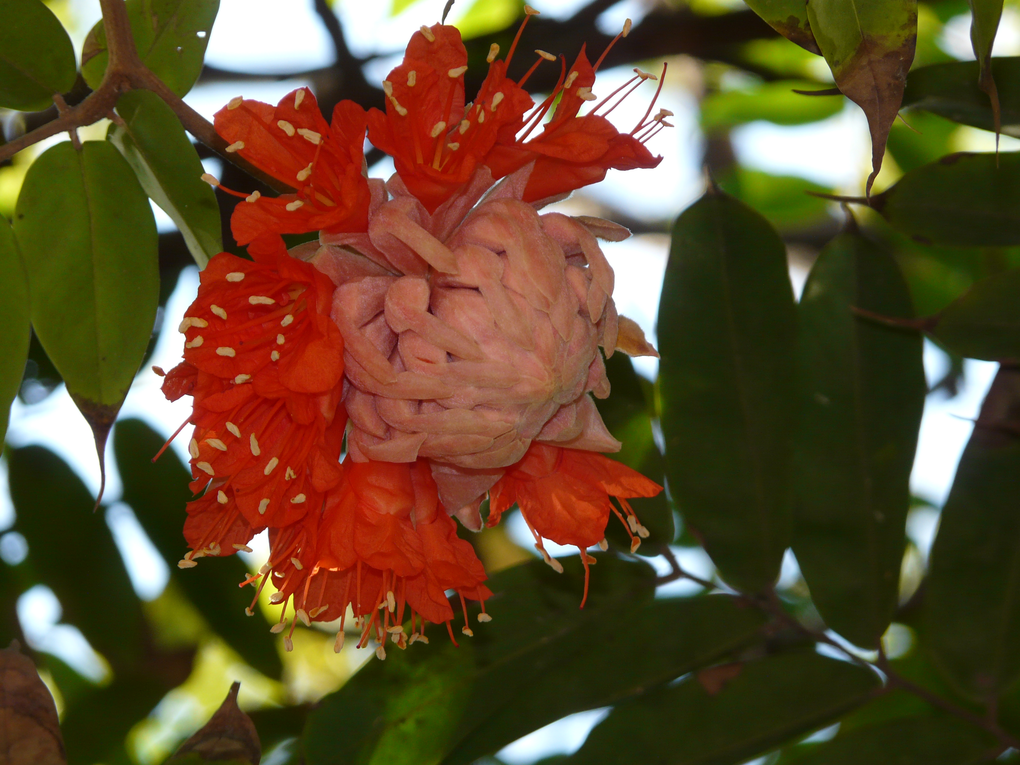 Fabaceae (pea, or legume family) » Brownea coccinea BROW-nee-uh -- named for Patrick Browne, Irish botanist and author kok-SIN-ee-uh -- meaning, red commonly known as: brownea, cooper hoop, rose of Venezuela, scarlet flame bean, West Indian mountain rose • Bengali: supti • Marathi: लाल झुंबर lal zumbar Native to: Guyana, Venezuela, Brazil and Trinidad and Tobago References: Flowers of India • NPGS / GRIN • Wikipedia • ILDIS